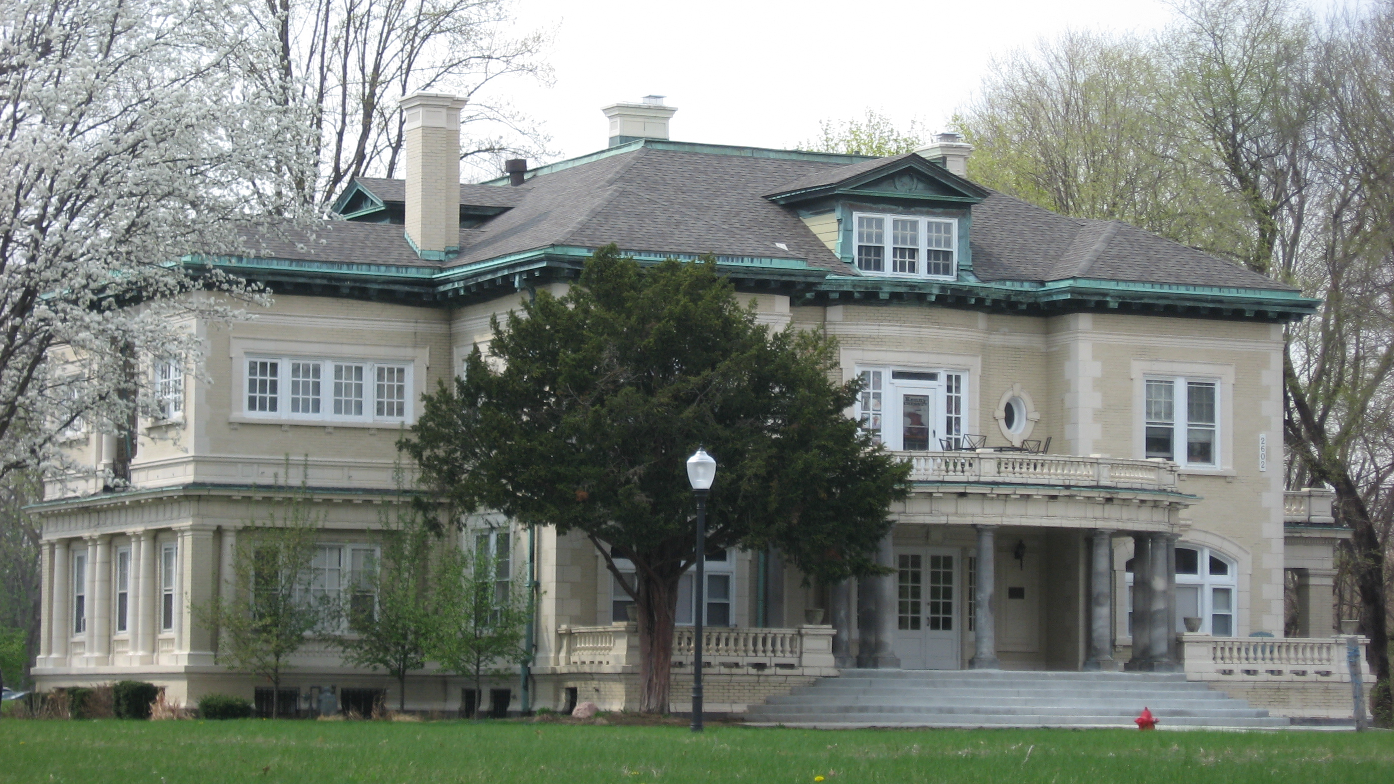 Front of the Henry F. Campbell Mansion, located at 2550 Cold Spring Road in Indianapolis, Indiana, United States. Built in 1916 and since converted into apartments, it is listed on the National Register of Historic Places.